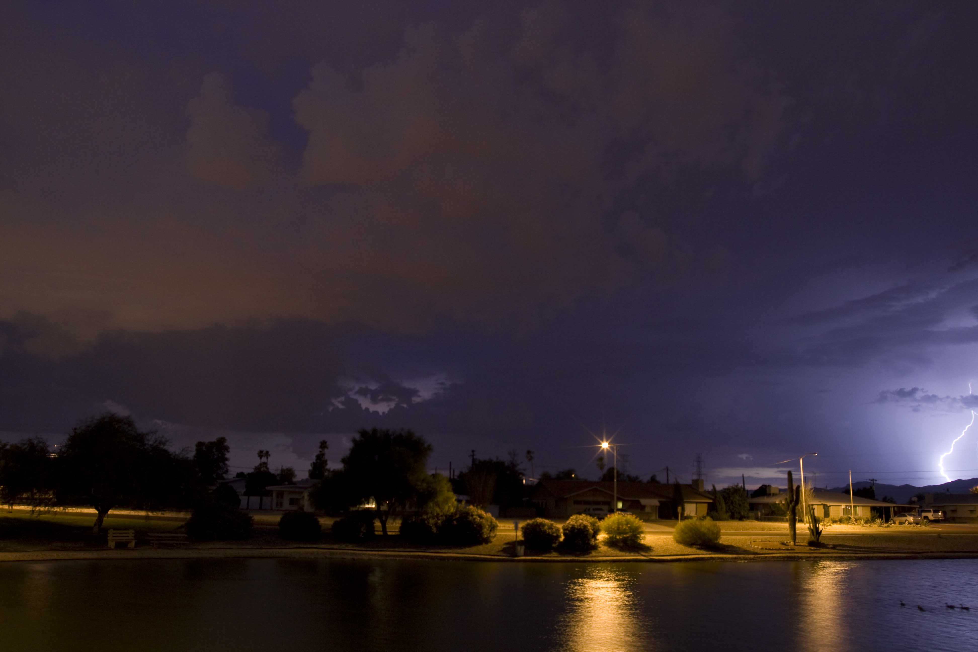 Maricopa Lake with cloud-to-ground lightning — in Youngtown, Maricopa County, Arizona. "This is my favorite photo of the night! Had a main strike you can see in the picture, to left was another storm so had some cloud to cloud that lit up the clouds a little."